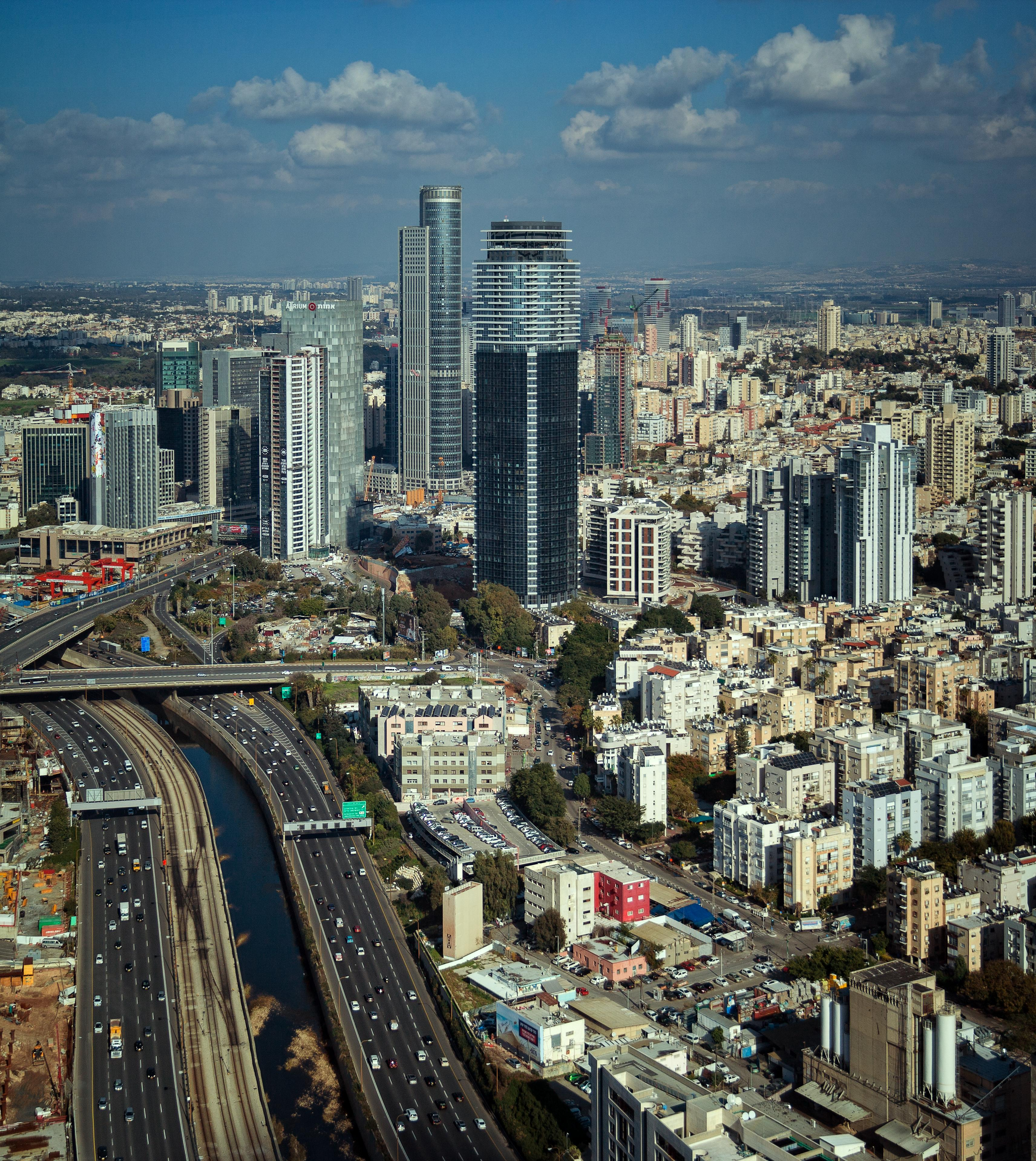 View of Ayalon Highway running through Tel Aviv